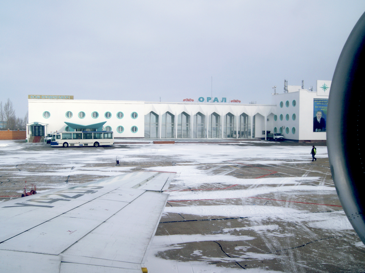 Oral Ak Zhol Airport (domestic terminal airside view)